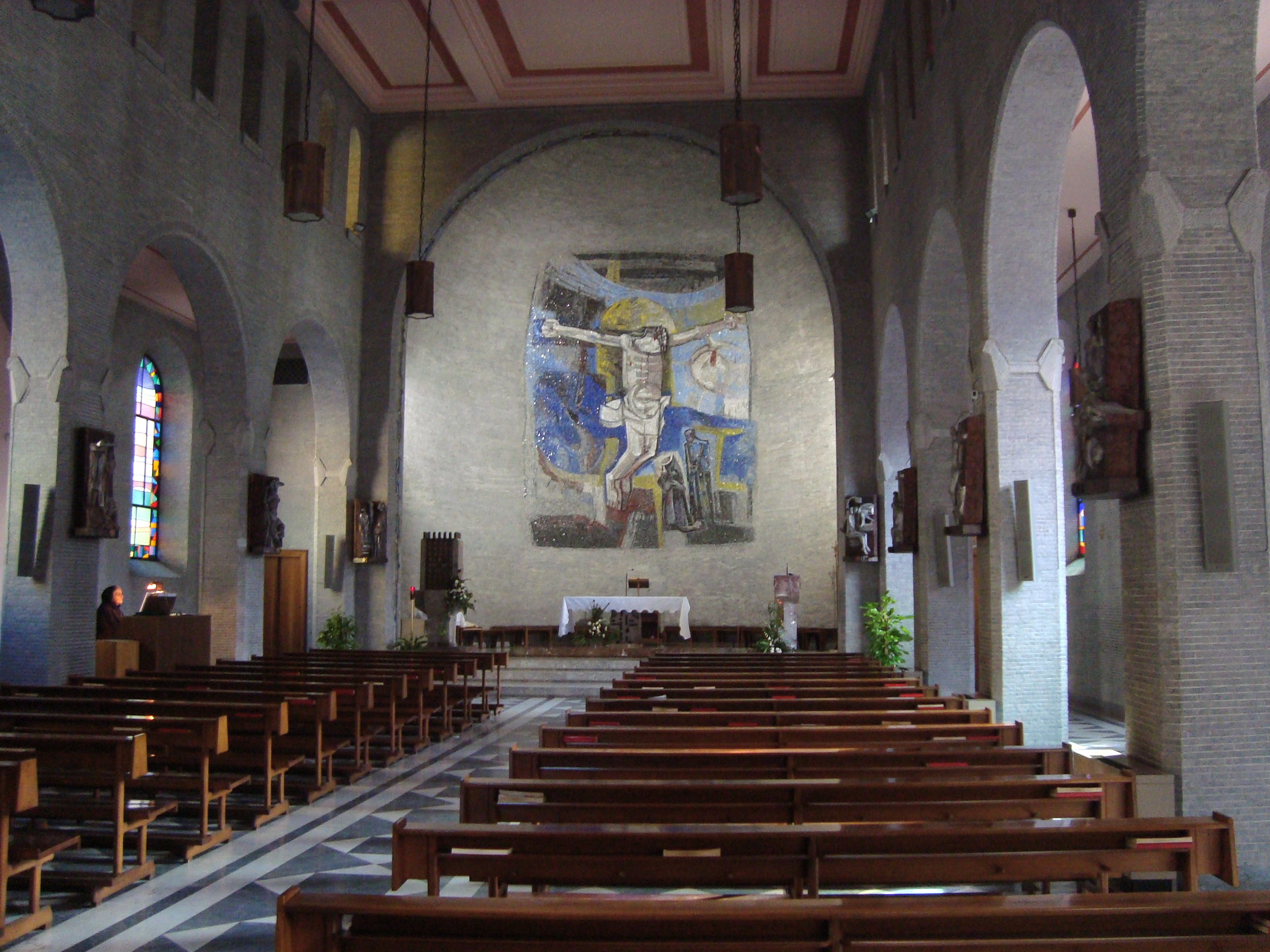 The interior of the church Preziosissimo Sangue di Nostro Signore Gesù Cristo in Appio Latino, Rome